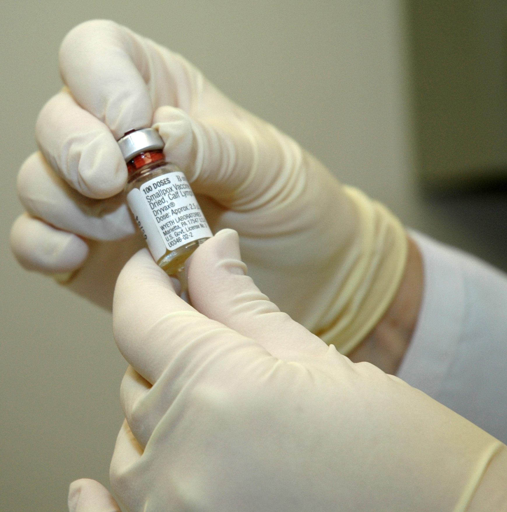 Title Vial of Smallpox Vaccine Description The gloved hands of a scientist with the National Cancer Institute (NCI) in Frederick, Maryland, holds a sample vial of lyophilized Smallpox Vaccine. Topics/Categories Treatment -- Biological Therapy Type Color, Photo Source National Cancer Institute